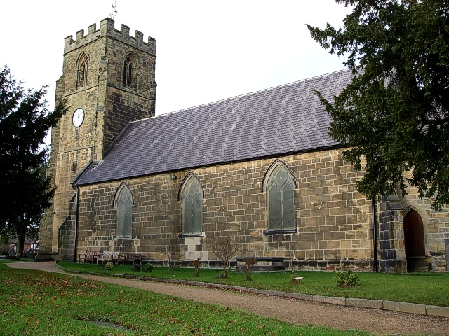 St. Peter's Church, Drayton Bassett This church dates back to 1327 when Ralph Lord Bassett was licensed by the King - the recently crowned Edward III - to discharge a debt by building a church at Drayton. However, due to neglect the old church crumbled and was severely damaged by a storm in 1792. Most of the church required rebuilding, though part of the tower dates from this old church. Sir Robert Peel the famous Conservative Prime Minister, and MP for nearby Tamworth is entombed here, and his family enlarged the church in memory of him.